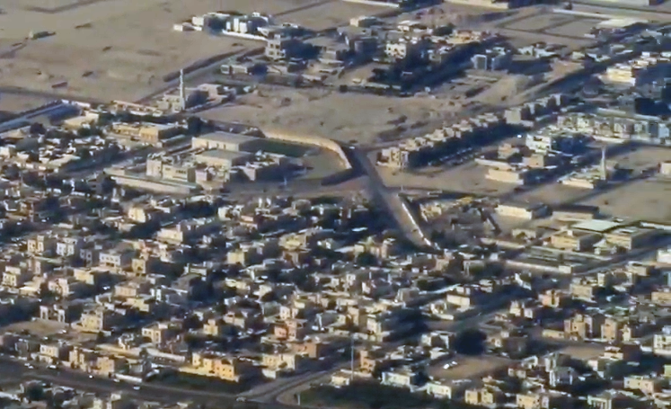 Aerial view of the districts of Hazm Al Markhiya and Onaiza in Doha, Qatar, separated by University Street in the center.